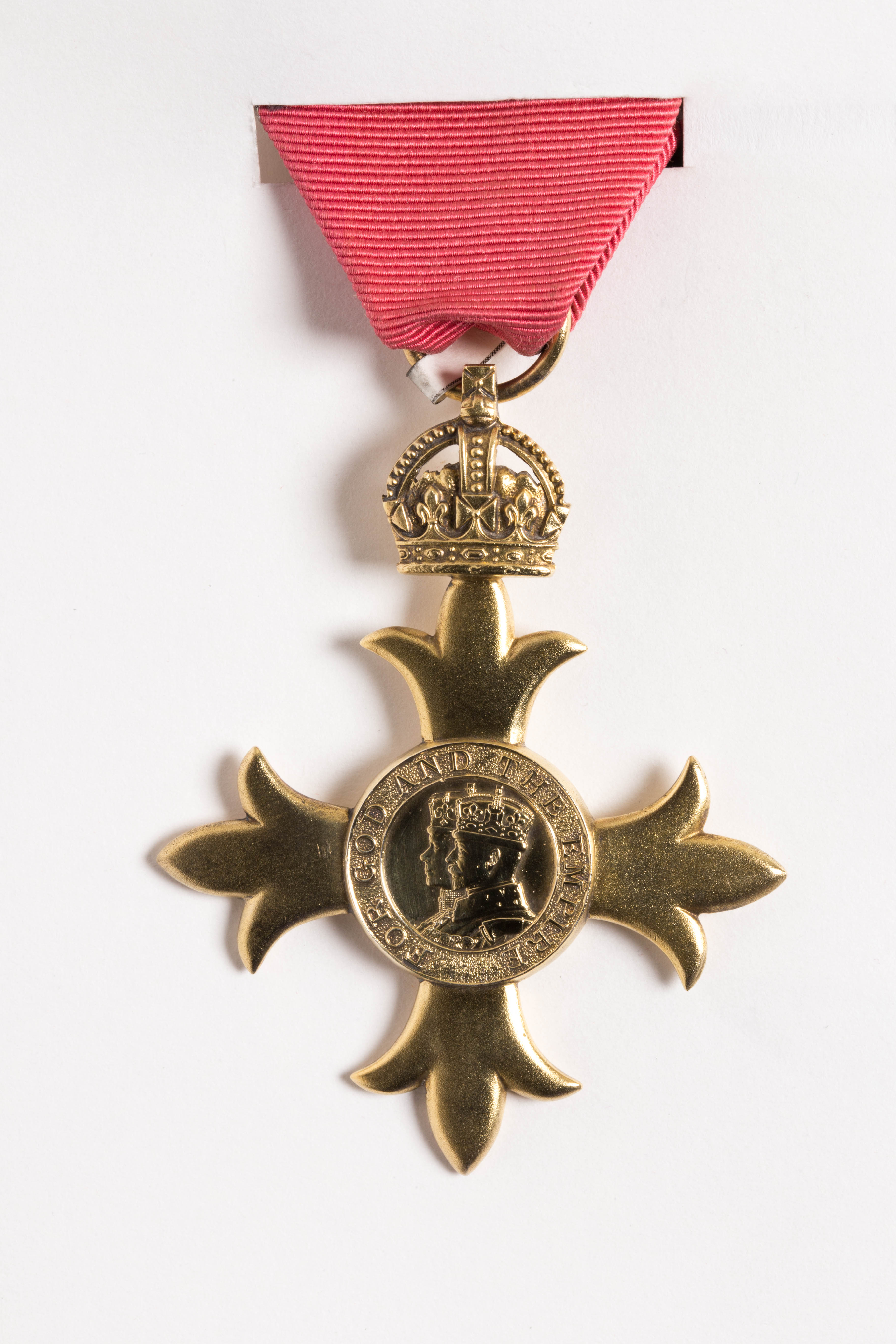 The Most Excellent Order of the British Empire - Officer (Civ) (OBE) GV Awarded to Wing Commander Alfred Hardwick Marsack, OBE (Civ), RAF (1906-1966) gold cross patonce; ring suspension; grosgrain ribbon obverse- conjoined crowned busts of King George V and Queen Mary at centre; surrounded by motto- FOR GOD AND EMPIRE; medal surmounted by crown reverse- royal cypher- GRI; surmounted by crown ribbon- red with grey stripes at edges